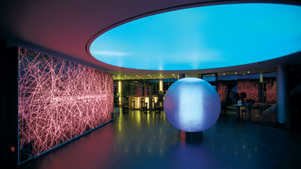 Red Bull Hangar-7, Salzburg airport